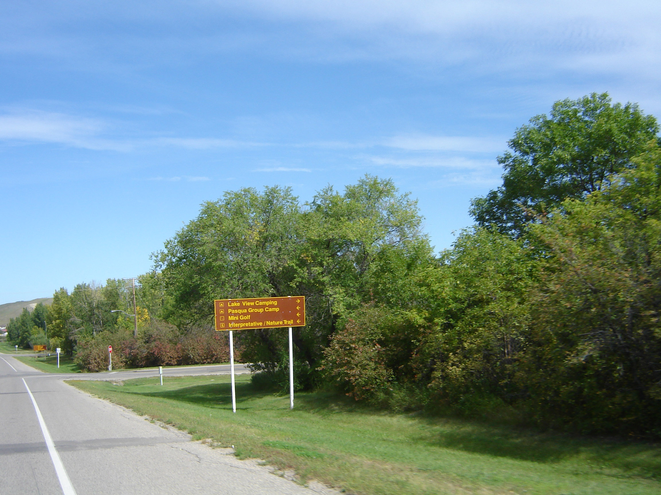 Echo Valley Provincial Park, Lake View Camping, Pasqua Group Camp, Mini golf, Interpretative/Nature Trail.